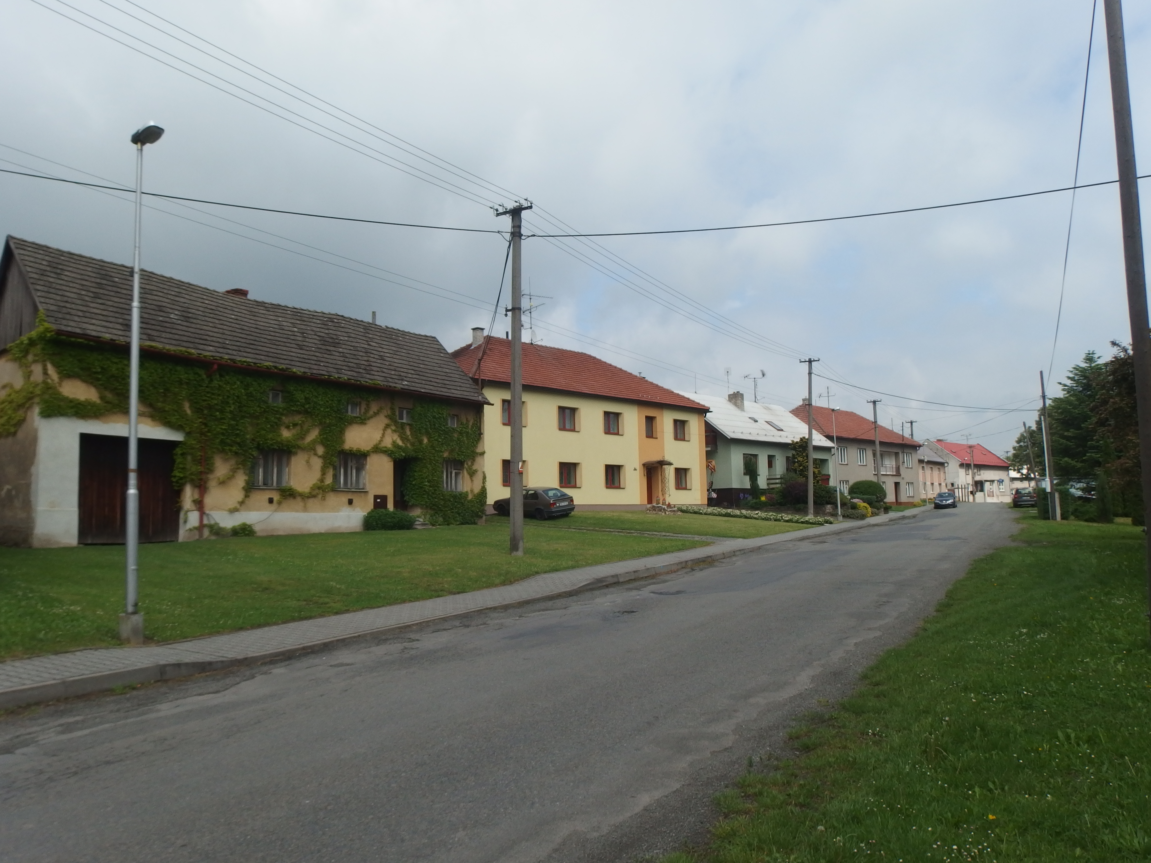 Vítonice, Kroměříž District, Czech Republic.